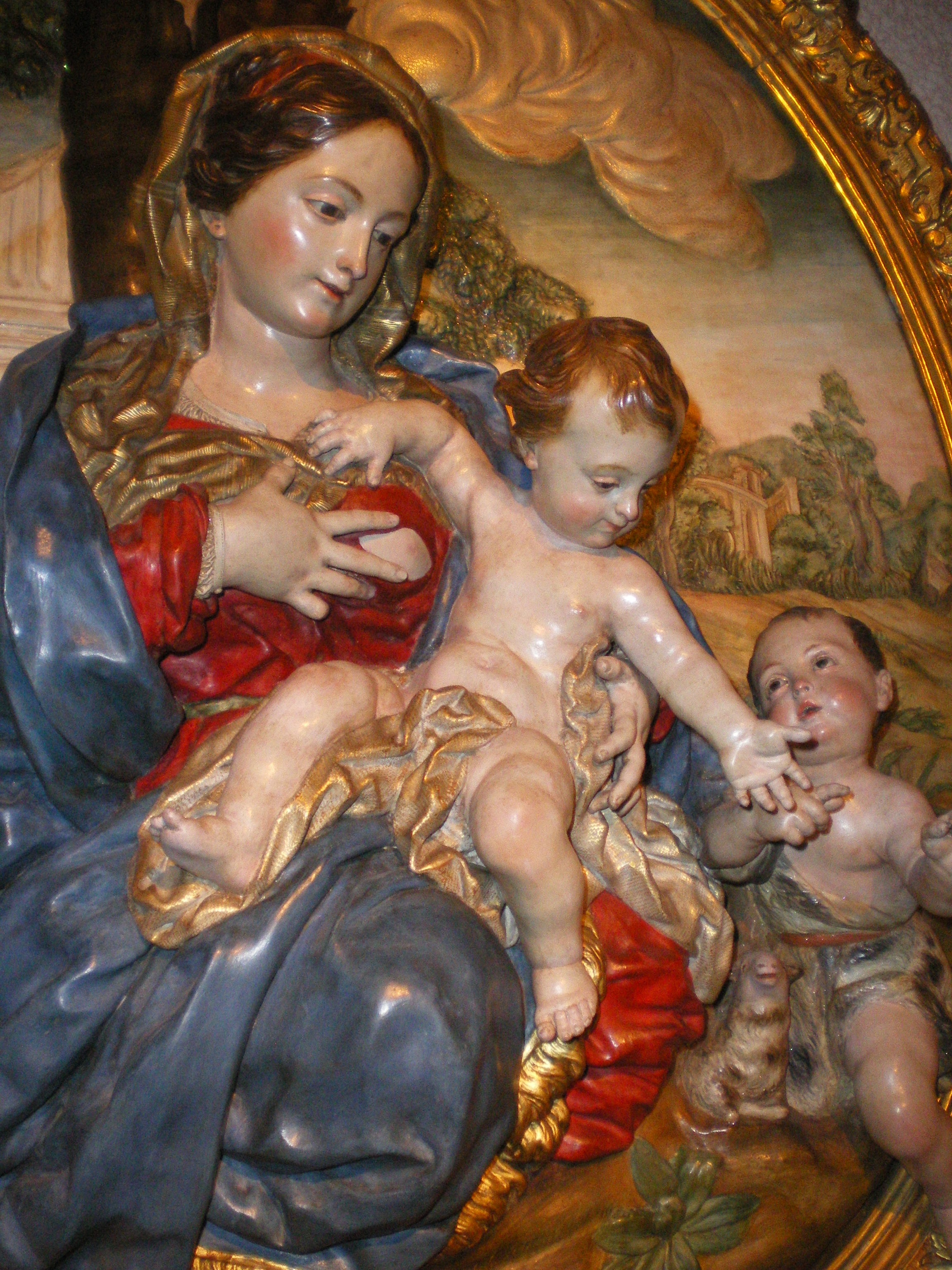 Virgen de la Leche (Virgin of the Milk). Francisco Salzillo.